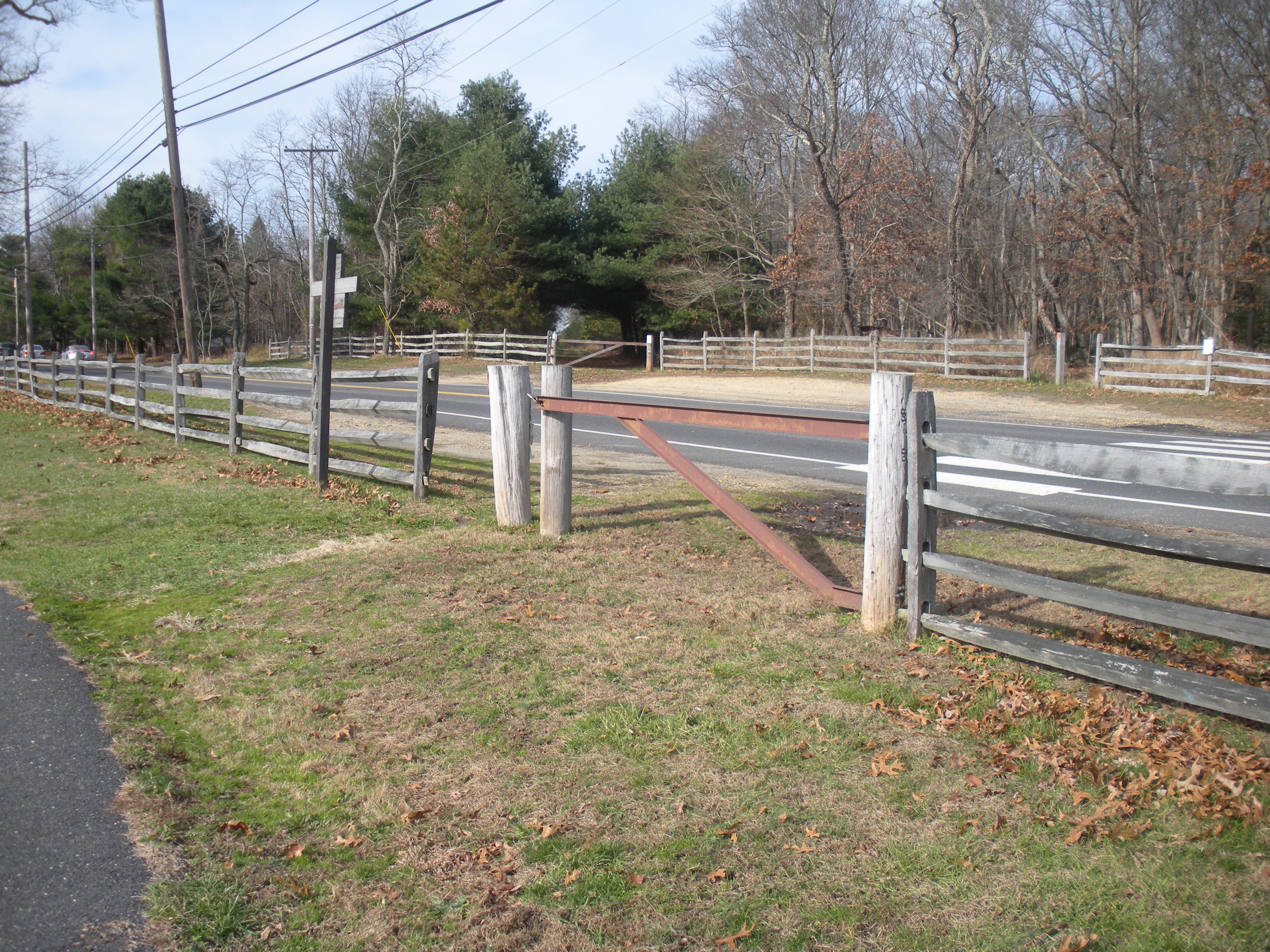 View of unimproved entrance to the Freehold-Jamesburg trail in Allaire State Park, NJ